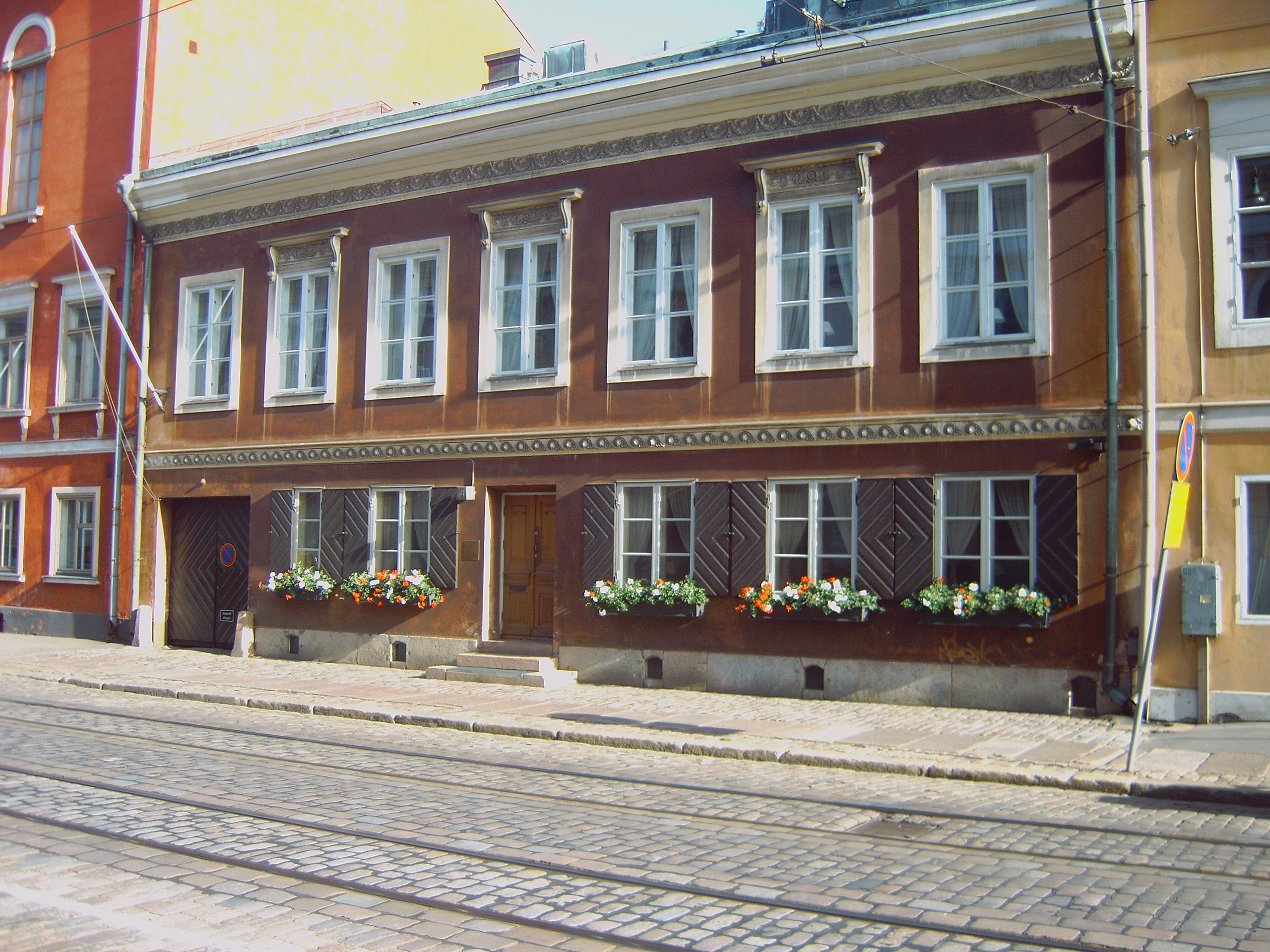 The Brummer House, Helsinki, Finland. It's the official residence of the Mayor of Helsinki.